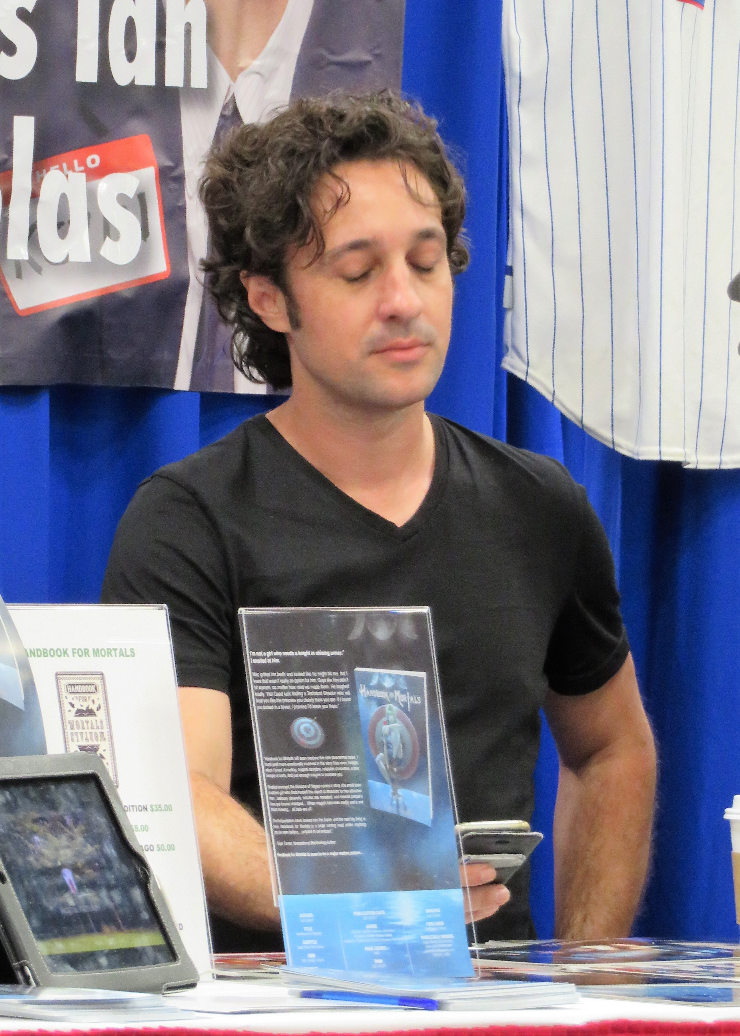 Thomas Ian Nicholas 01